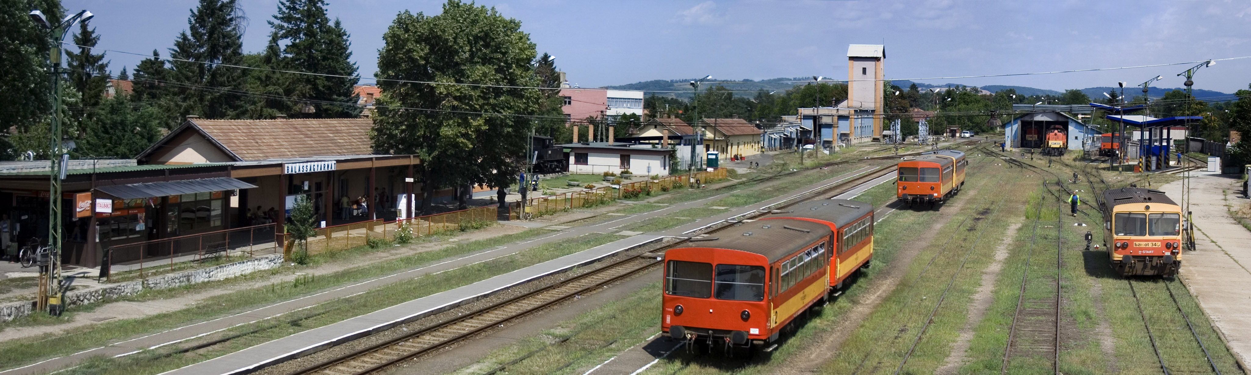 Balassagyarmat train station panorama, Hungary